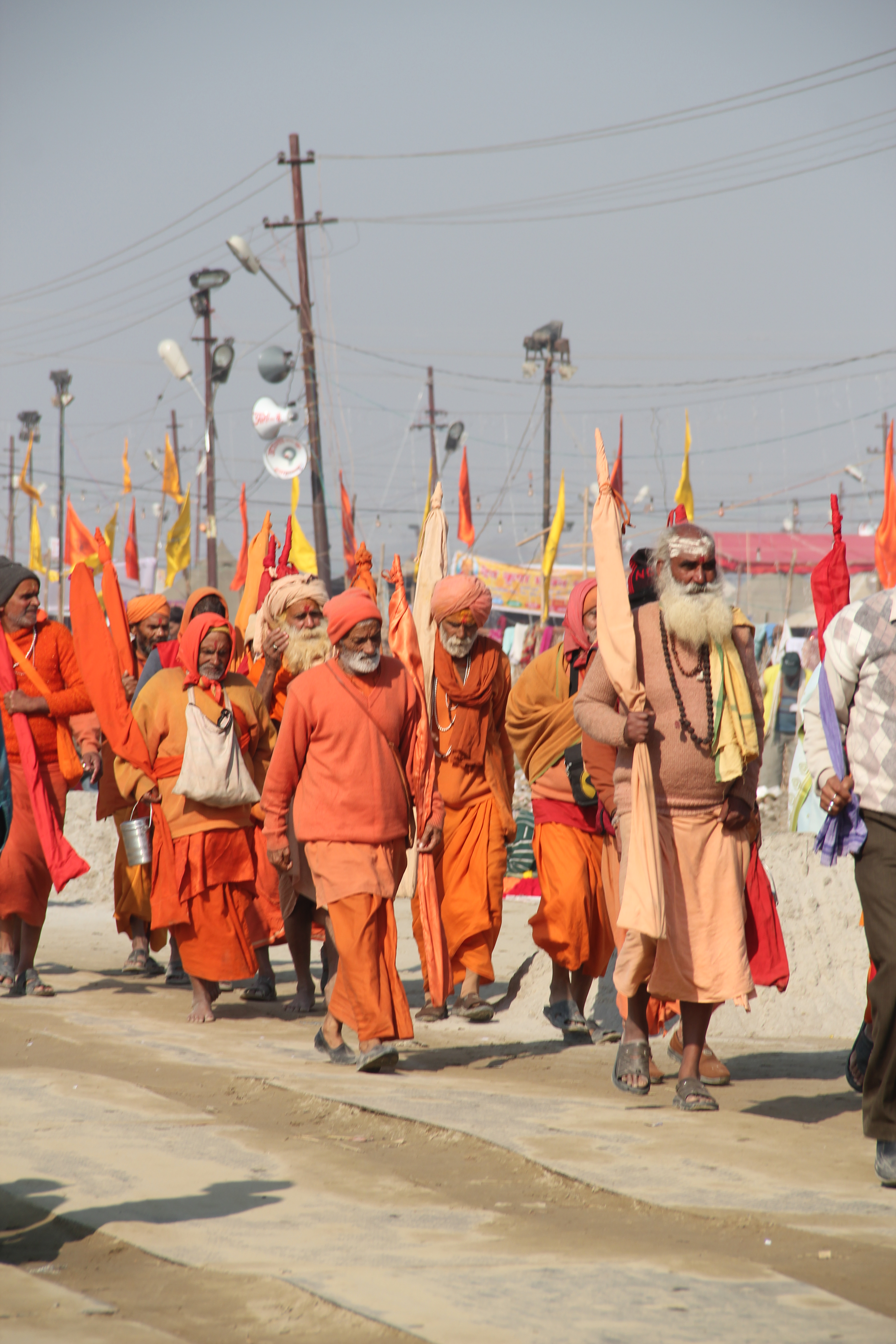 Kumbh Mela is a Hindu gathering every 12 years at Makar Sankranti, marked by bathing in sacred rivers. It is observed at four locations, each location cycling to another every 4 years, returning to each location every 12 years. The 12 year Prayaga Sangam at Ganga-Yamuna rivers is the world's largest pilgrimage gathering. Also called Magha Mela, it is traceable to a 2,000 year old tradition, mentioned in the Mahabharata. See Diana Eck, India: A Sacred Geography, Random House.